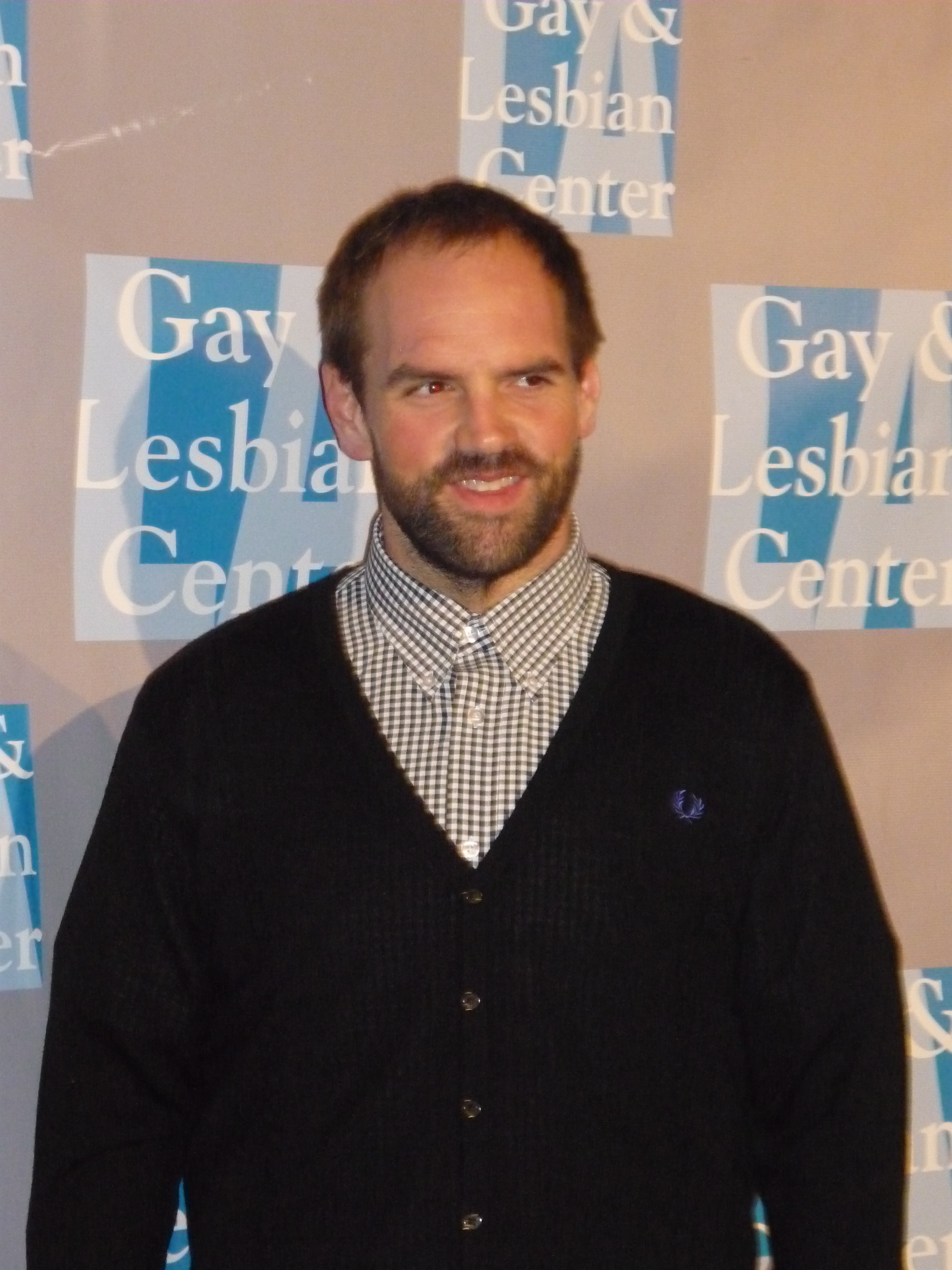 American actor Ethan Suplee at 19th GLAAD Media Awards in May 2008.